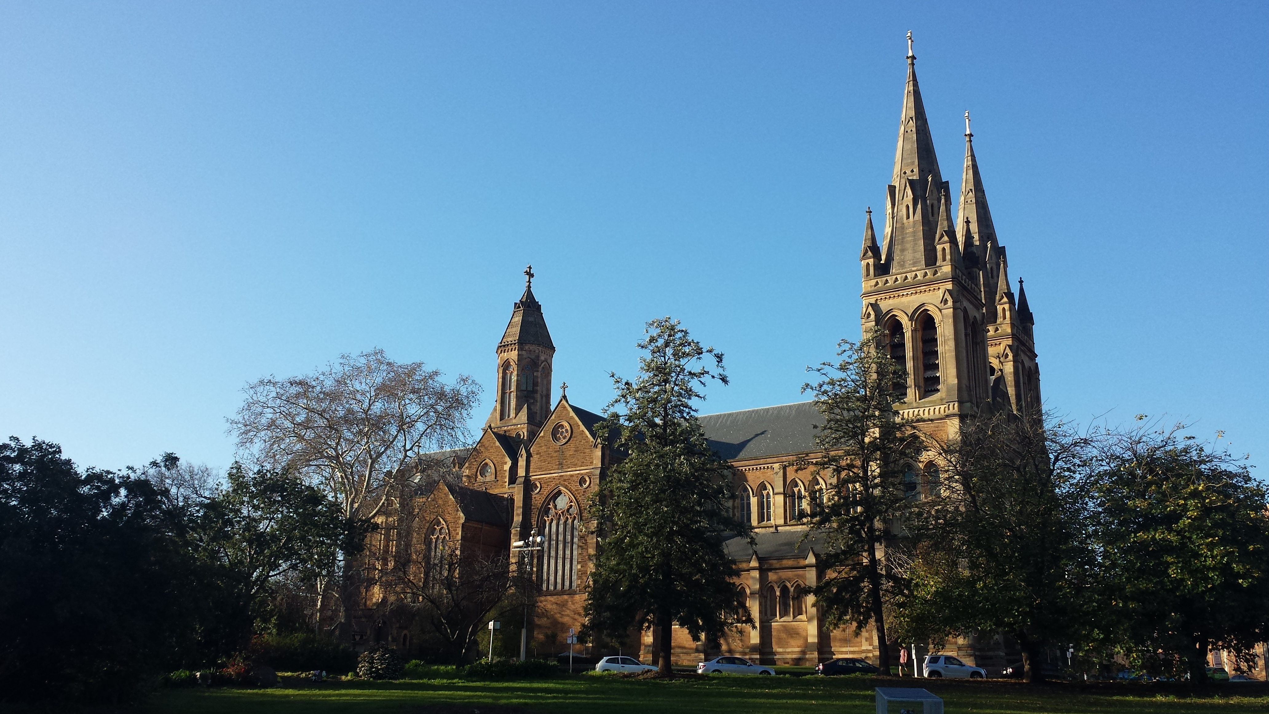 The Cathedral (south elevation)